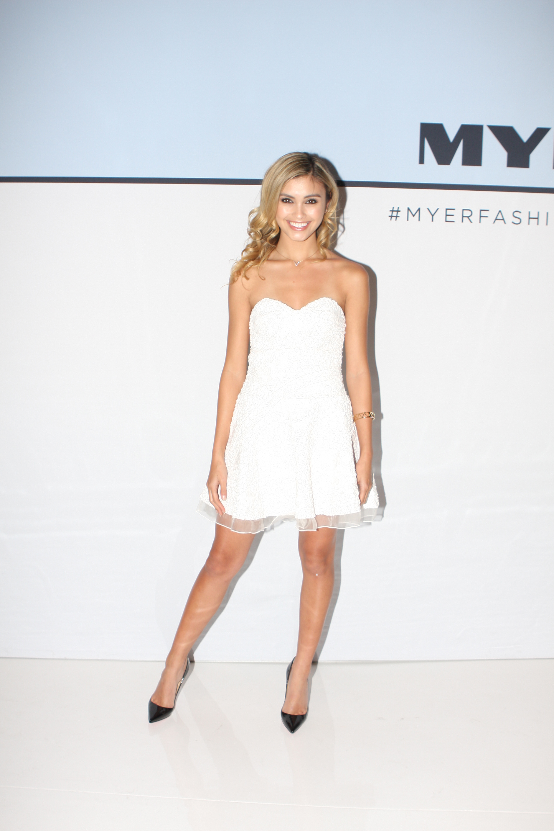 Sarah Ellen in Aje at Myer Fashion Spring Launch 2015